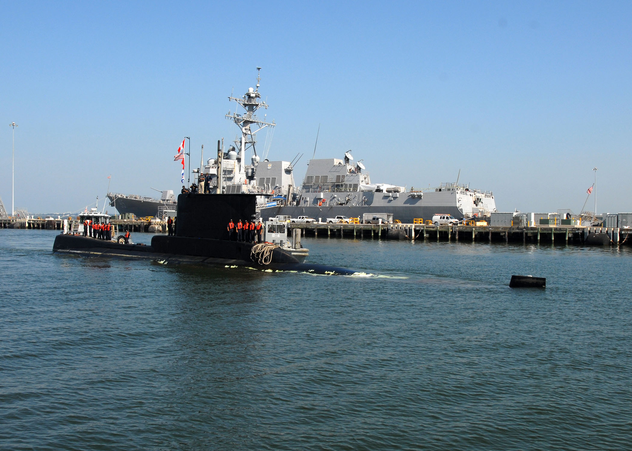 NORFOLK (July 22, 2010) The Peruvian navy submarine BAP Angamos (SS-31) arrives at Naval Station Norfolk for a scheduled port visit. Angomos is participating in a diesel-electric submarine initiative deployment and arrived in Norfolk to partner with the Kearsarge Amphibious Ready group for participation in a composite unit training exercise off the East Coast of the United States. (U.S. Navy photo by Mass Communication Specialist 1st Class Todd A. Schaffer/Released)